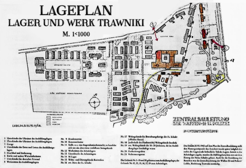 Trawniki concentration camp established during World War II by Nazi Germany on the territory of occupied Poland in Trawniki near Lublin, initially to hold Soviet prisoners of war, and from June 1942 also Jews brought in from Lublin and from all over Europe. Between September 1941 and July 1944, the camp was also used for training Holocaust executioners known as "Hiwi". The site of Aktion Erntefest massacre.